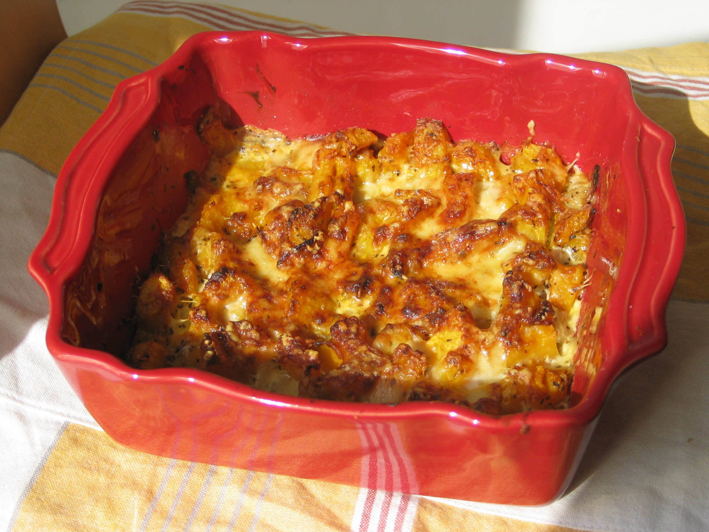 Squash gratin